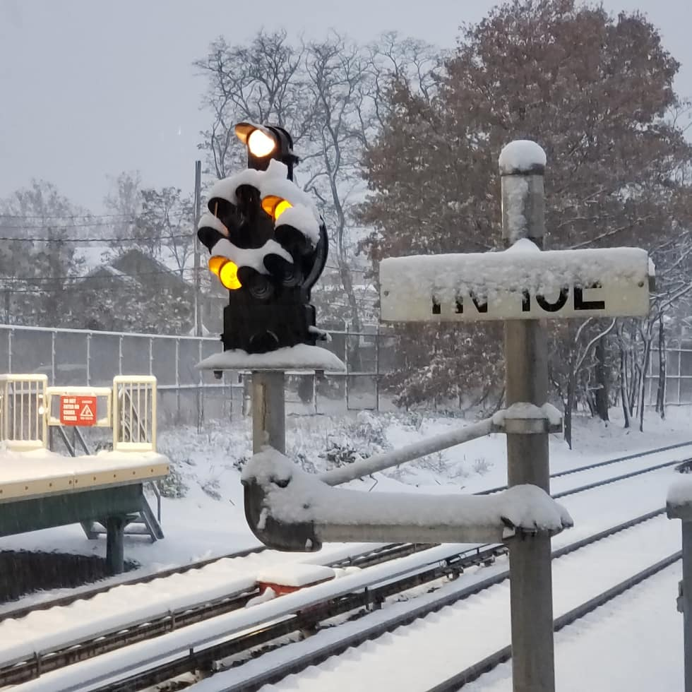 B&O-style CPL train signal, yellow, in use south of the Arthur Kill station on the Staten Island Railway, Staten Island, NY. Taken November 15th, 2018.